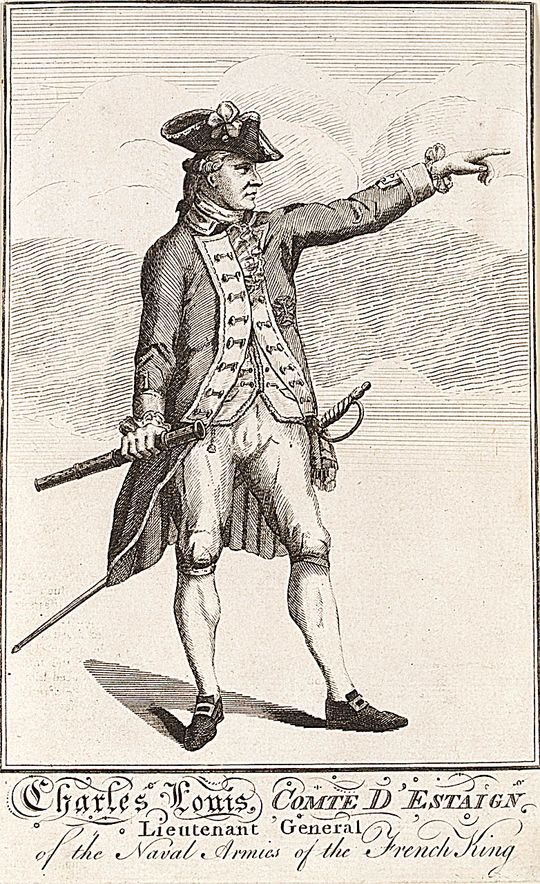 Charles Louis Comte D' Estaign [sic!] Lieutenant General of the Naval Armies of the French King, engraving